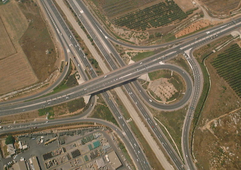 Shapirim interchange in israel (road 1 / road 412). taken by he:משתמש:אסף